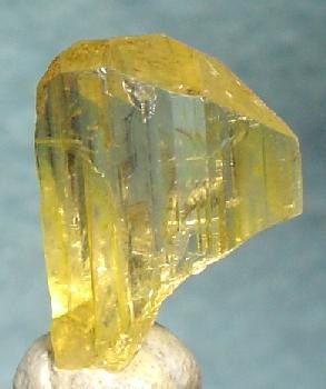 Richterite Locality: Badakhshan (Badakshan; Badahsan) Province, Afghanistan (Locality at ) Size: 1.6 x 1.2 x 0.6 cm. Richterite is a rare amphibole group silicate, very rarely seen in sharp, gemmy crystals. This is a superb, sharply terminated and very gemmy yellow crystal from the small find of 4 or 5 years ago. Ex. Irv Brown Collection.